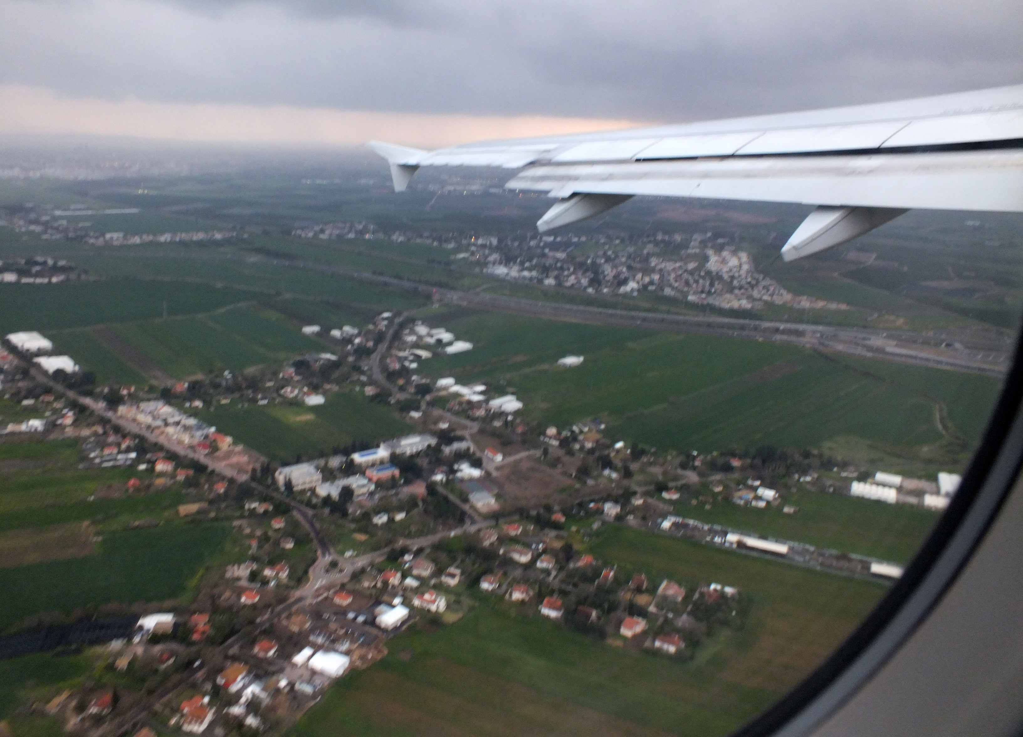 Moshav Tzafriya (צפריה) in central Israel as seen from above.